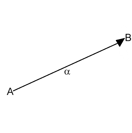 Vector